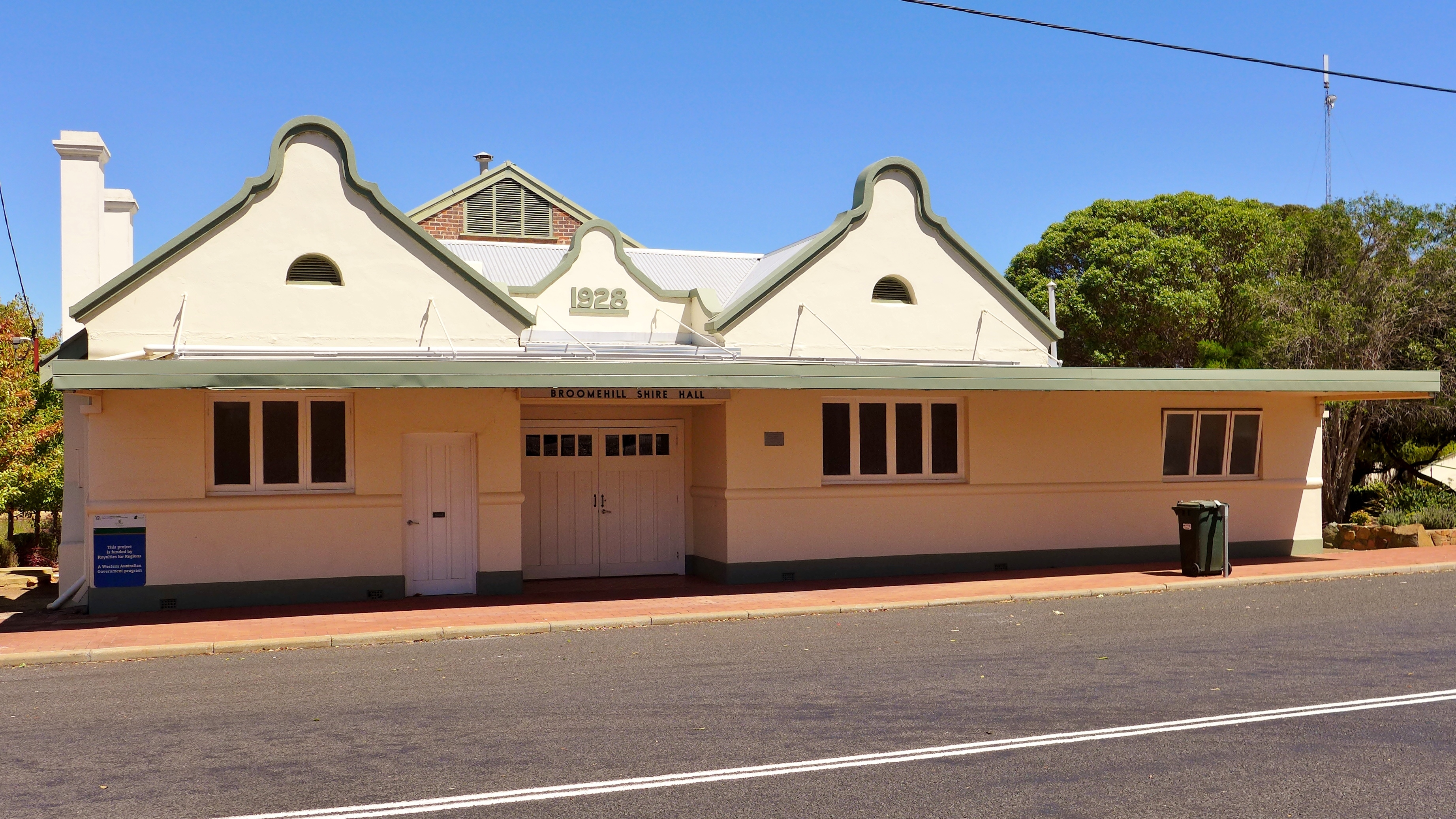 View of the Shire Hall, Broomehill, Western Australia